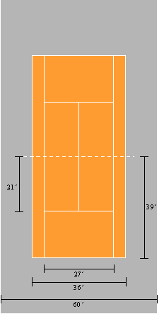 Tennis court By Magnus Manske, Lizenz : Public Domain 22:02, 11. Jul 2003 Magnus Manske 232 x 444 (718 Byte) (Tennisplatz, von en.wikipedia)